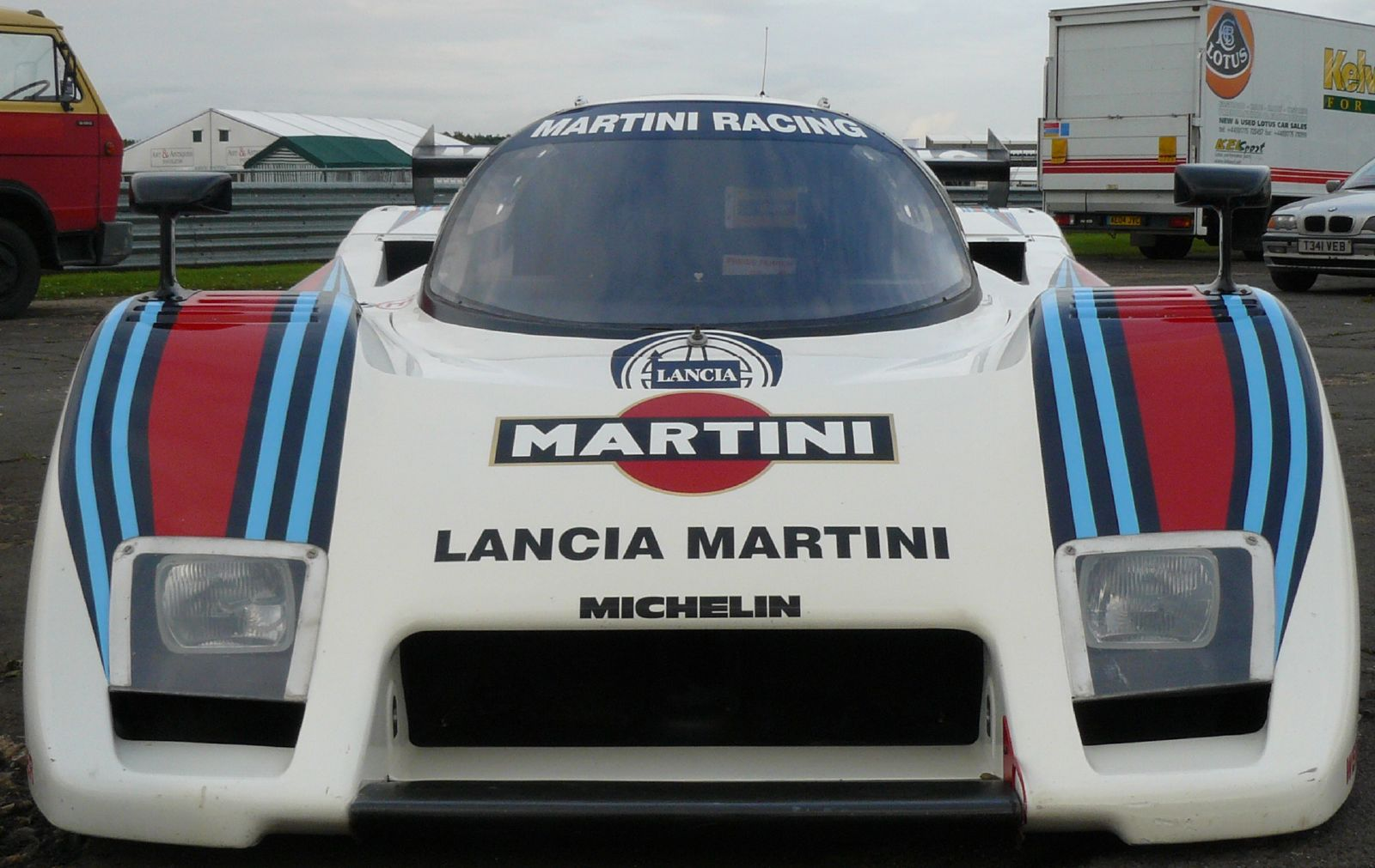 A Lancia LC2 at the Silverstone Classic